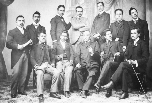 Bolivian writer and politician Alcides Arguedas (sitting, 4 from left to right) with other intelectuals